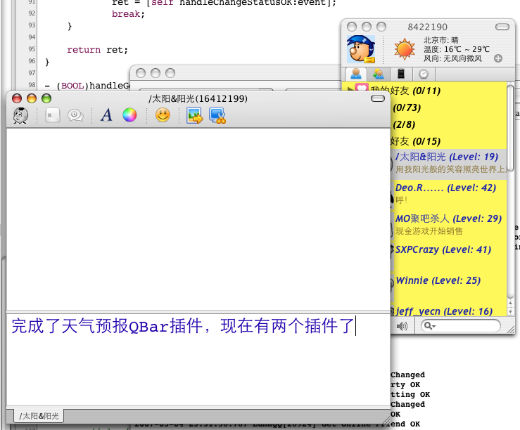 Screenshot of LumaQQ, a free software that provides Mac users an alternate to QQ.